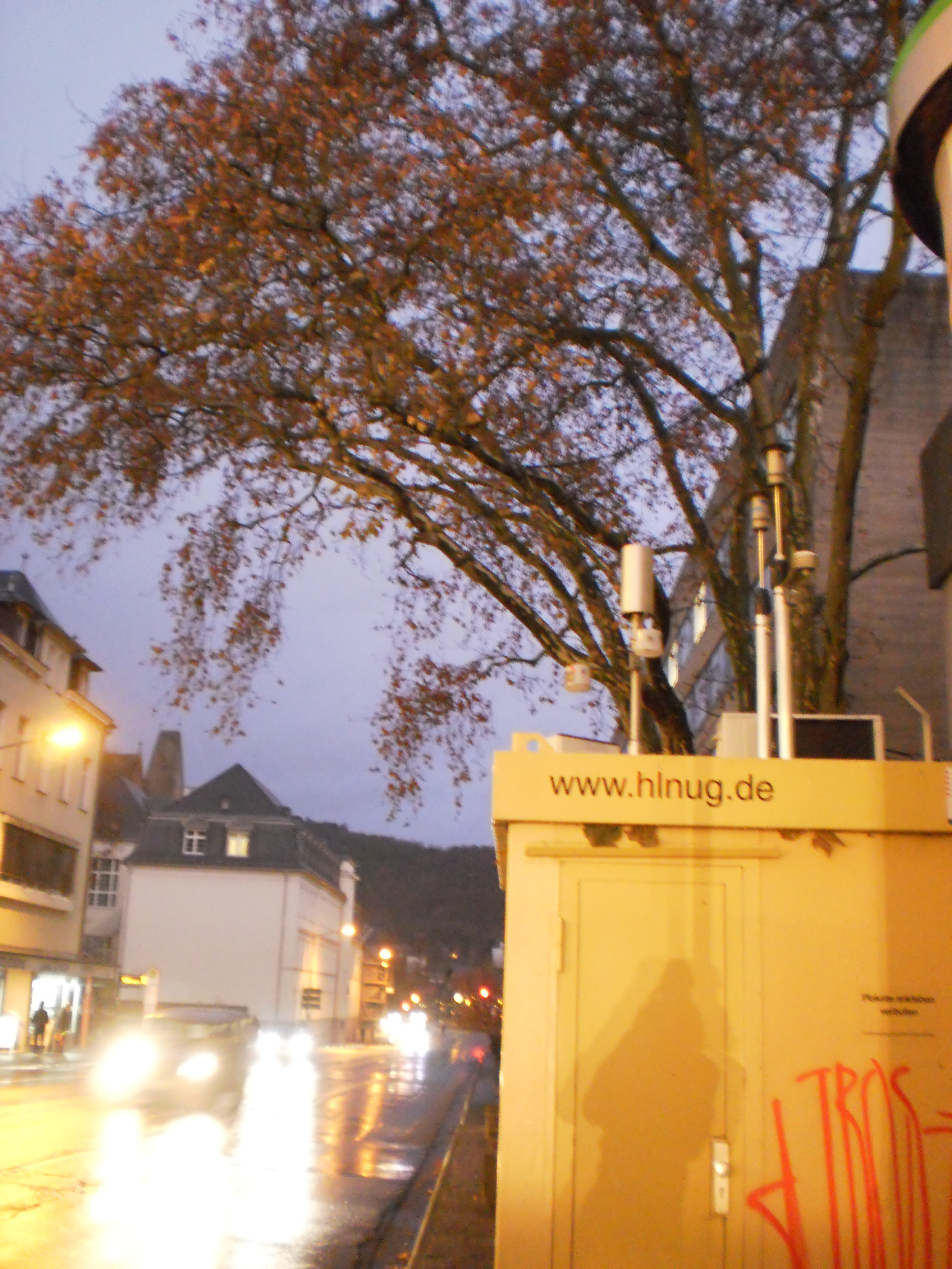 Measurement station for Air pollution near street in Marburg (Germany).